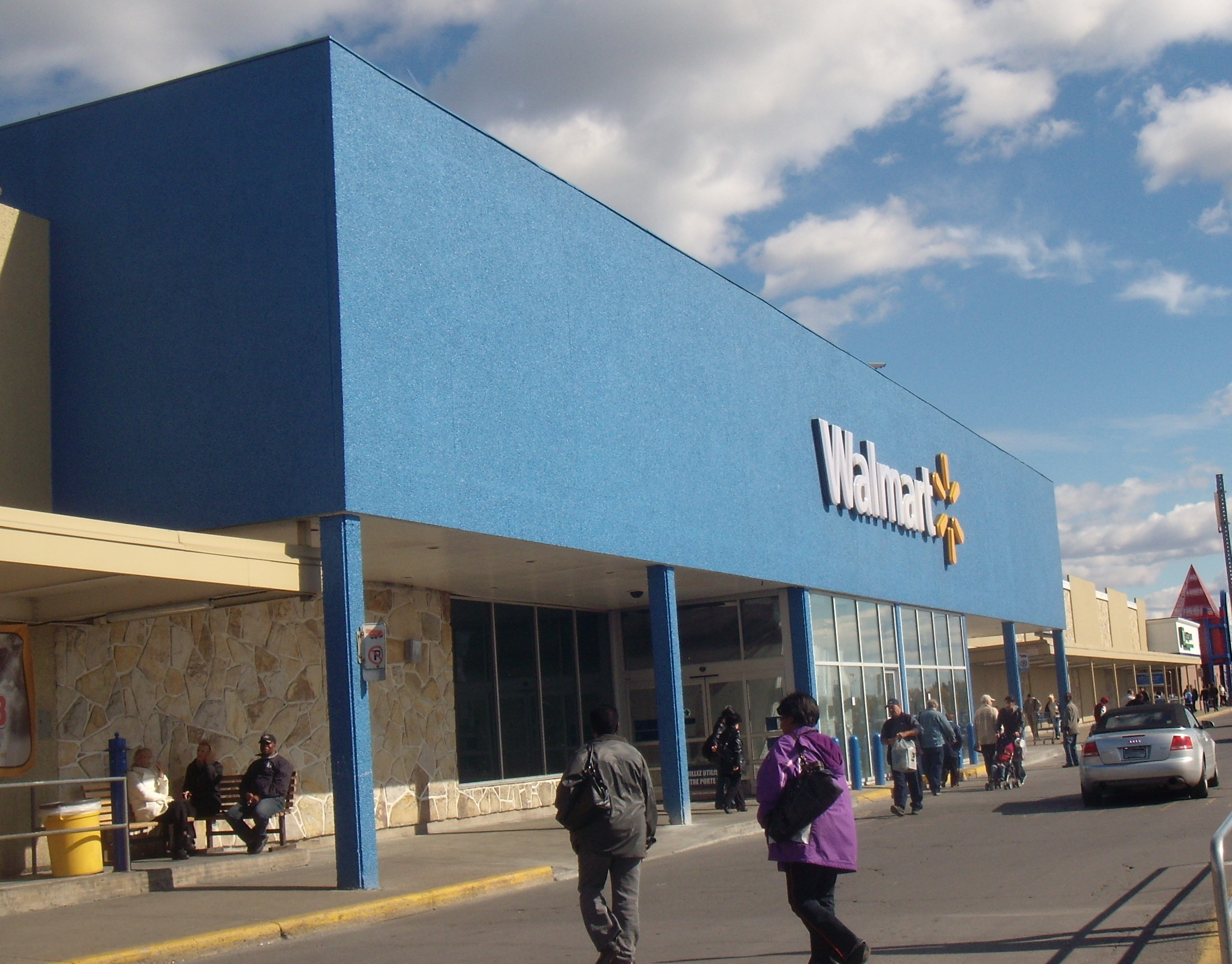 Exterior entrance of Walmart Carrefour Langelier (pre-Supercentre) & 2005-2008 Audi A4 Cabrio photographed in Montreal, Quebec, Canada.